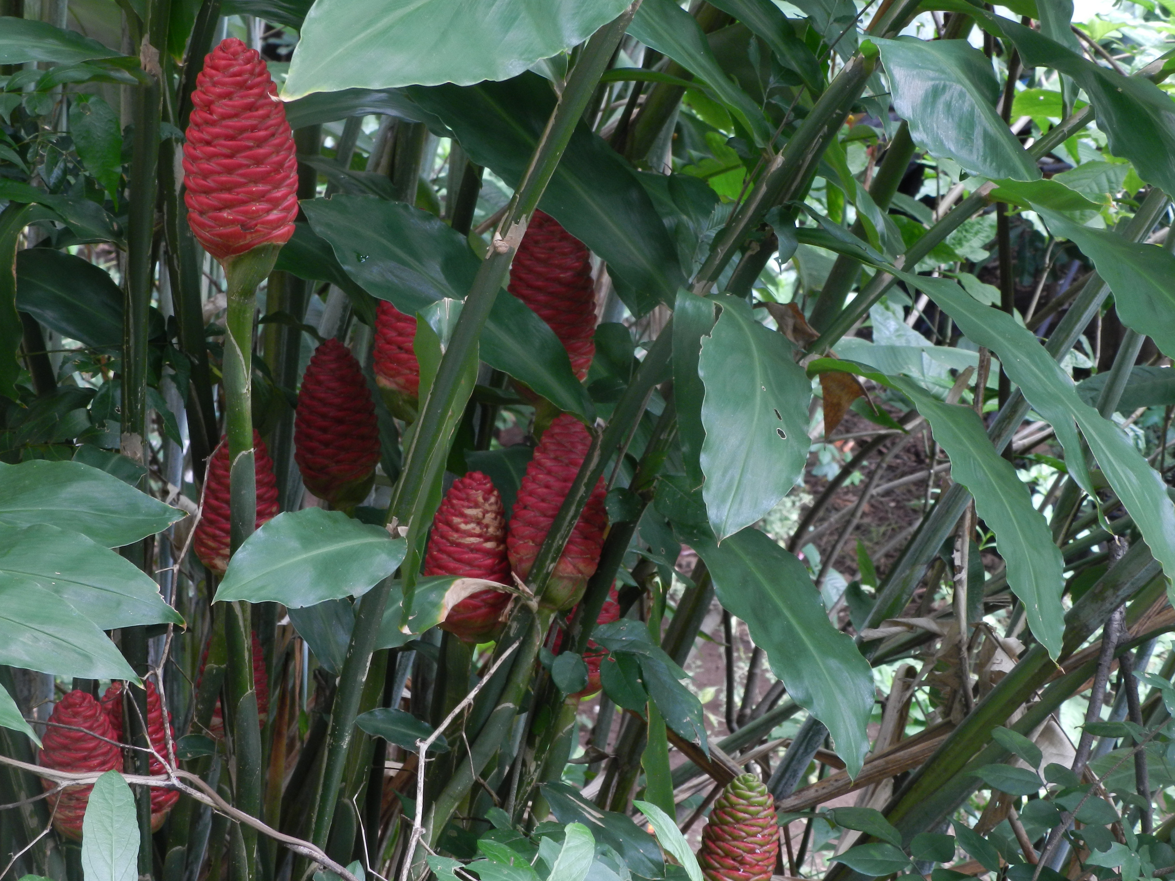 Zingiber zerumbet in [El Crucero], [Managua], [Nicaragua].